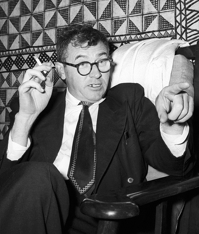 American writer James Thomas Farrel smoking a cigarette at Italian writer Fernanda Pivano's house. Italy, 1950s (Photo by Mario De Biasi\Mondadori Portfolio via Getty Images)